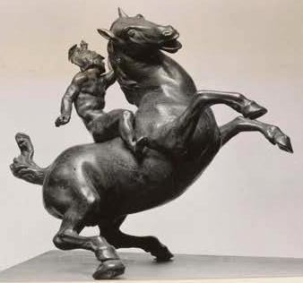 Black and white photo of the Rearing Horse and Mounted Warrior statuette by Leonardo da Vinci, taken during its stay in Munich at the end of World War II